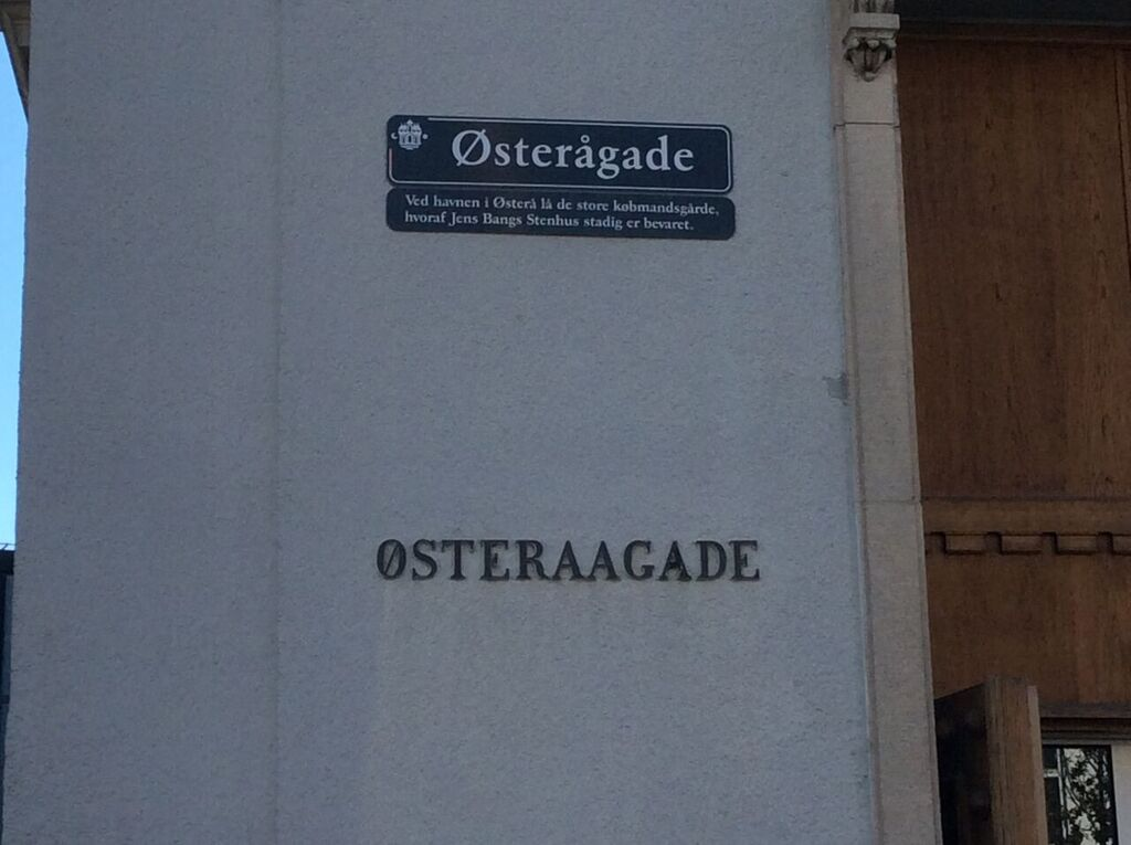 Street name sign of Østerågade in Aalborg